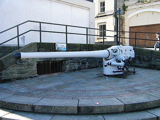 German submarine gun from WWI on display at Chepstow.